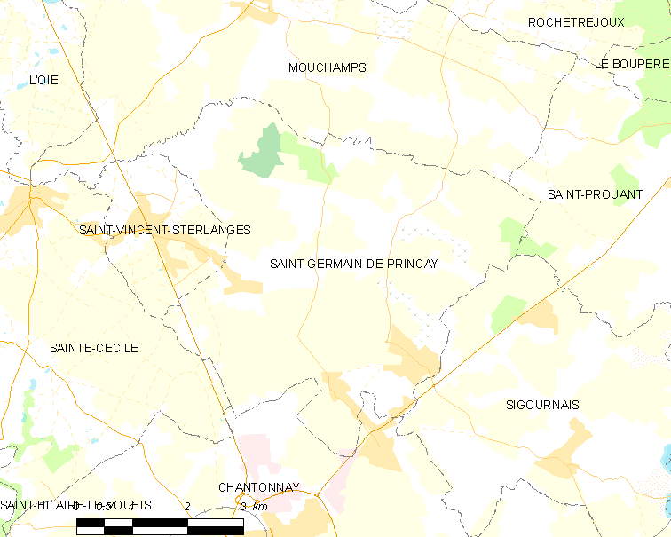 Map of French municipality Saint-Germain-de-Prinçay